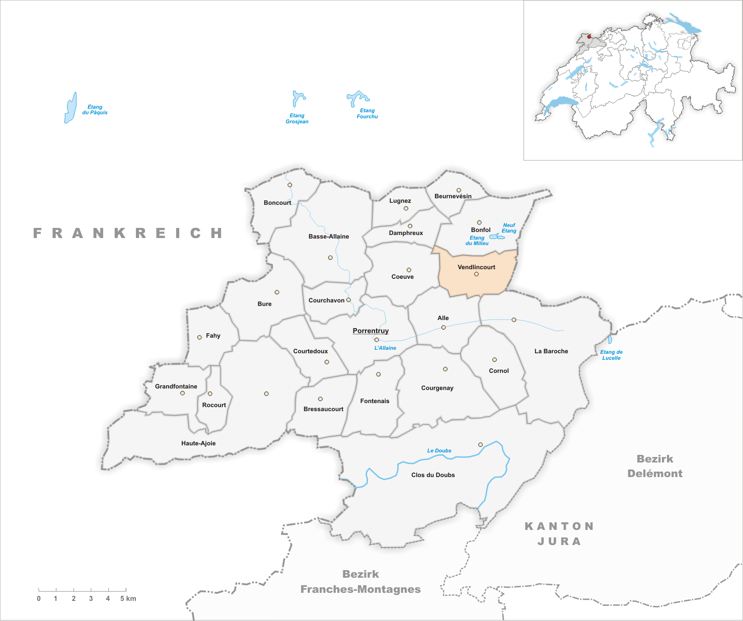 Municipality Vendlincourt